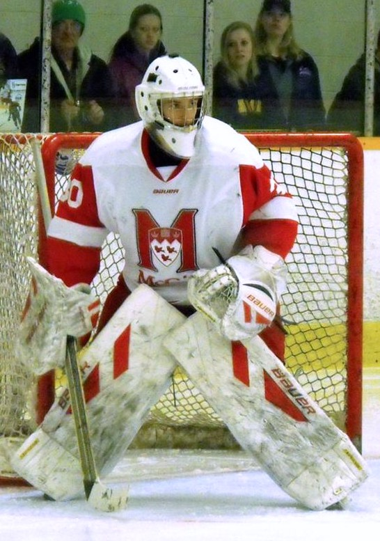 This photo was taken by Devan Mighton during the 2013-14 CIS men's season.